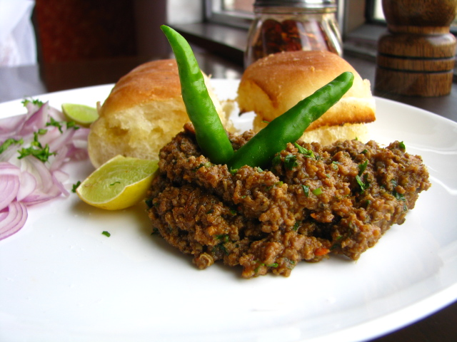 Kheema Pav